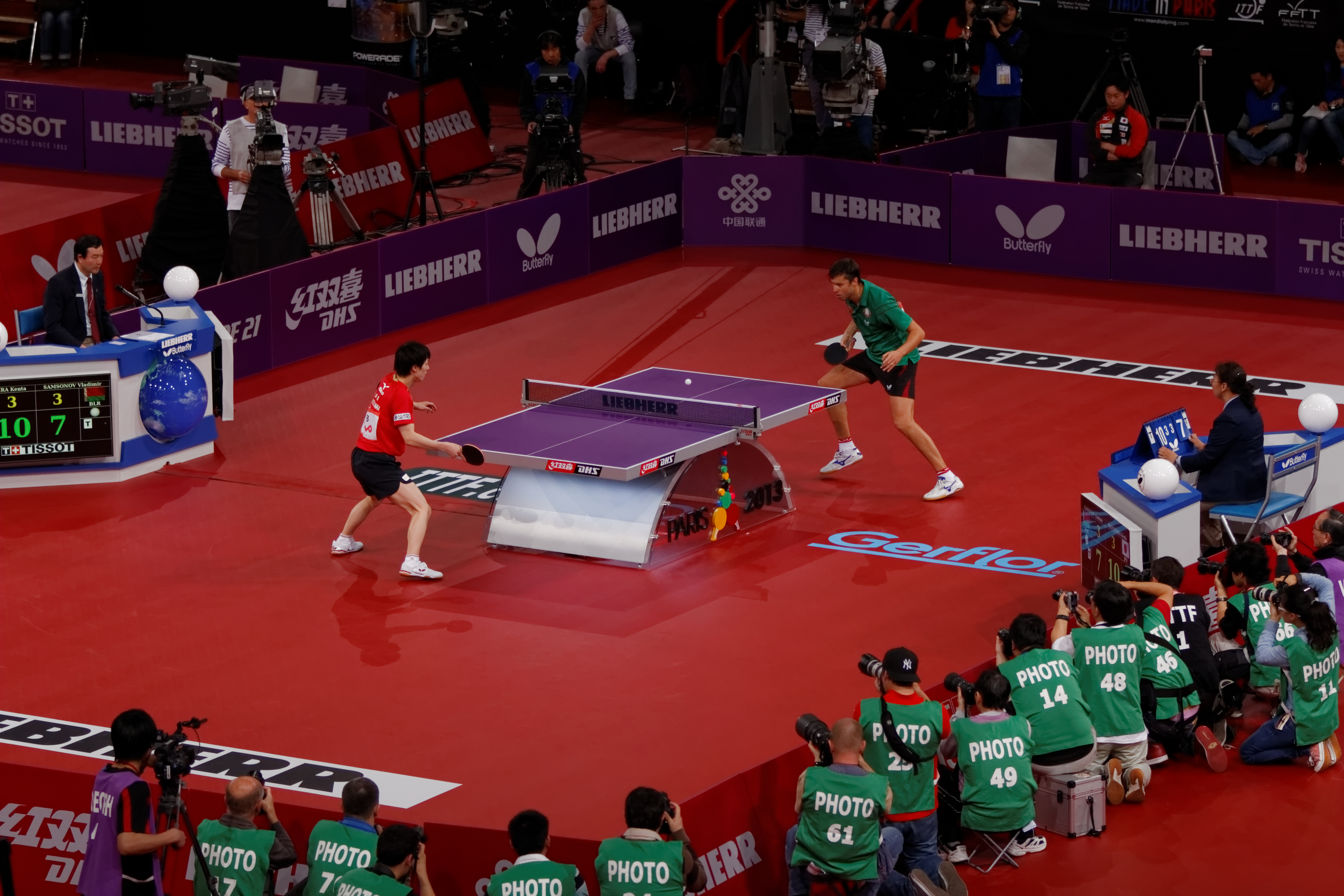 2013 World Table Tennis Championships, Paris. Men's Singles Round 4. Kenta Matsudaira vs Vladimir Samsonov.